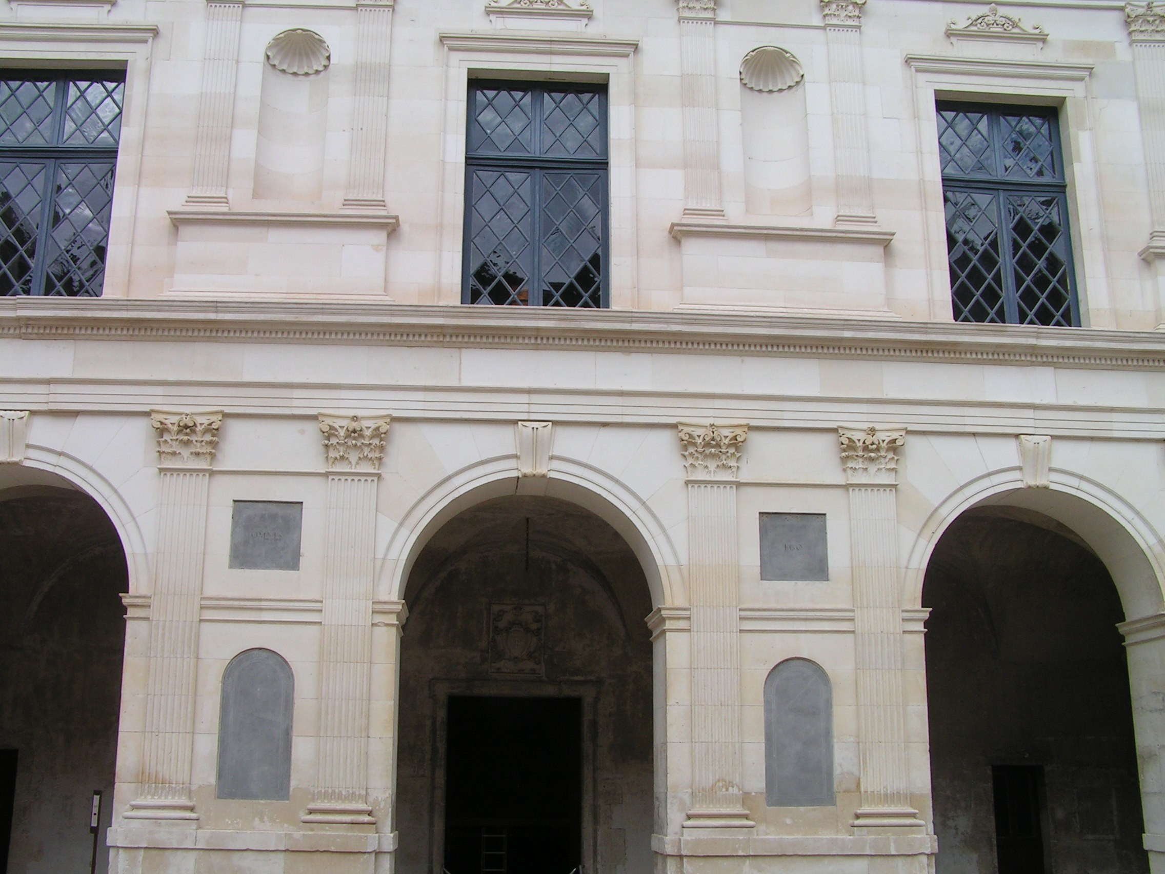 Château d'Ancy-le-Franc in Bourgogne, France